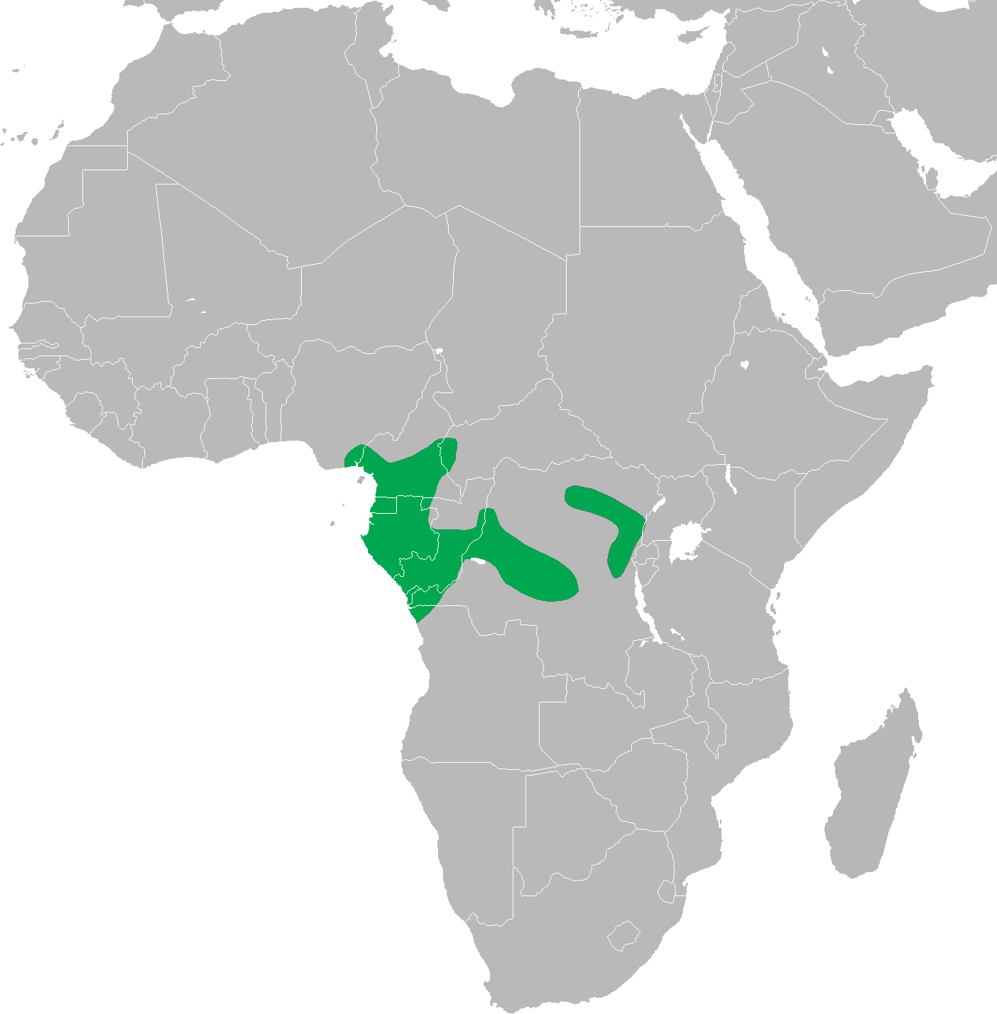 Gabon Woodpecker (Dendropicos gabonensis) distribution map